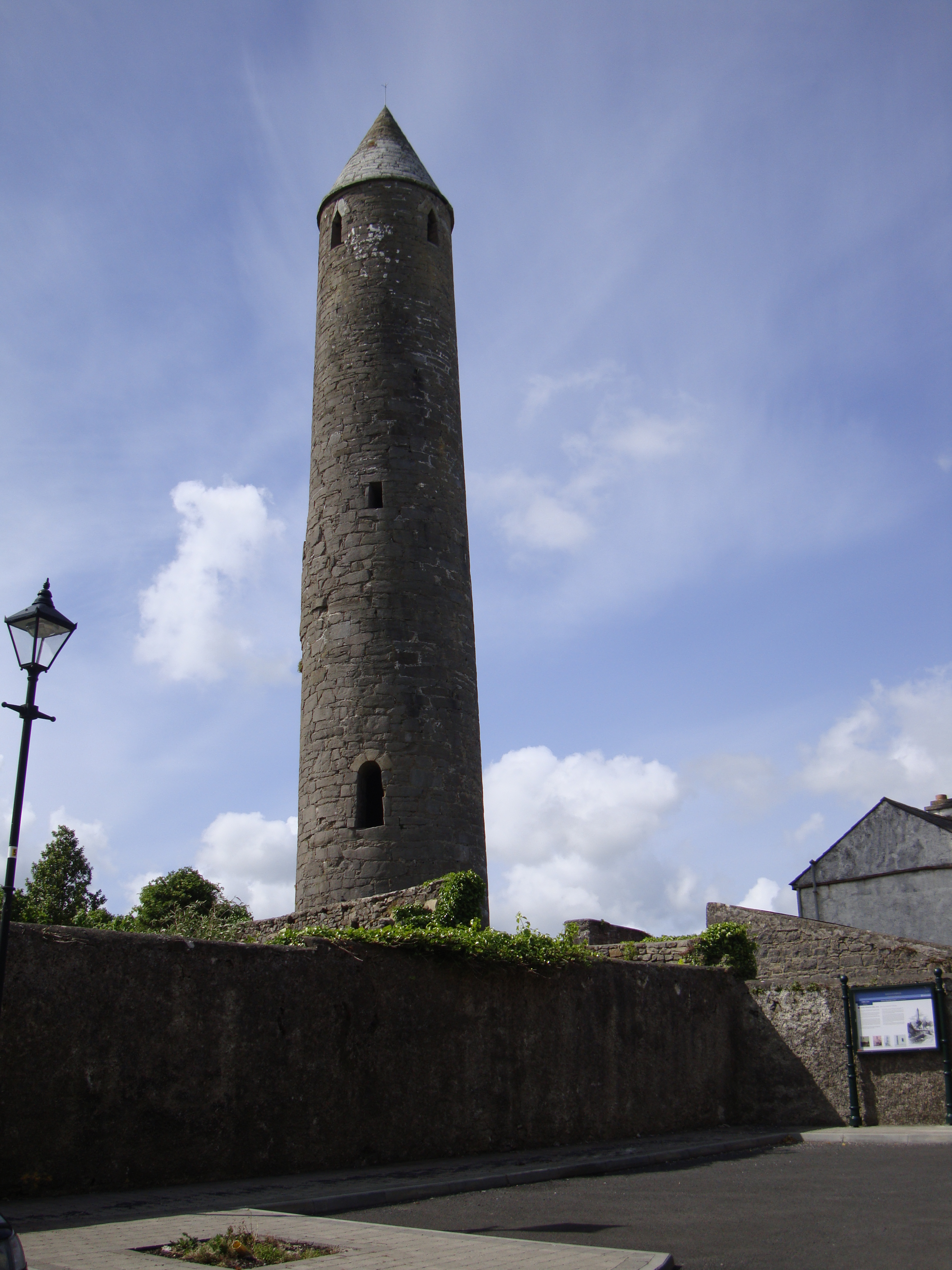 Photograph of Killala round tower, Co. Mayo, Ireland